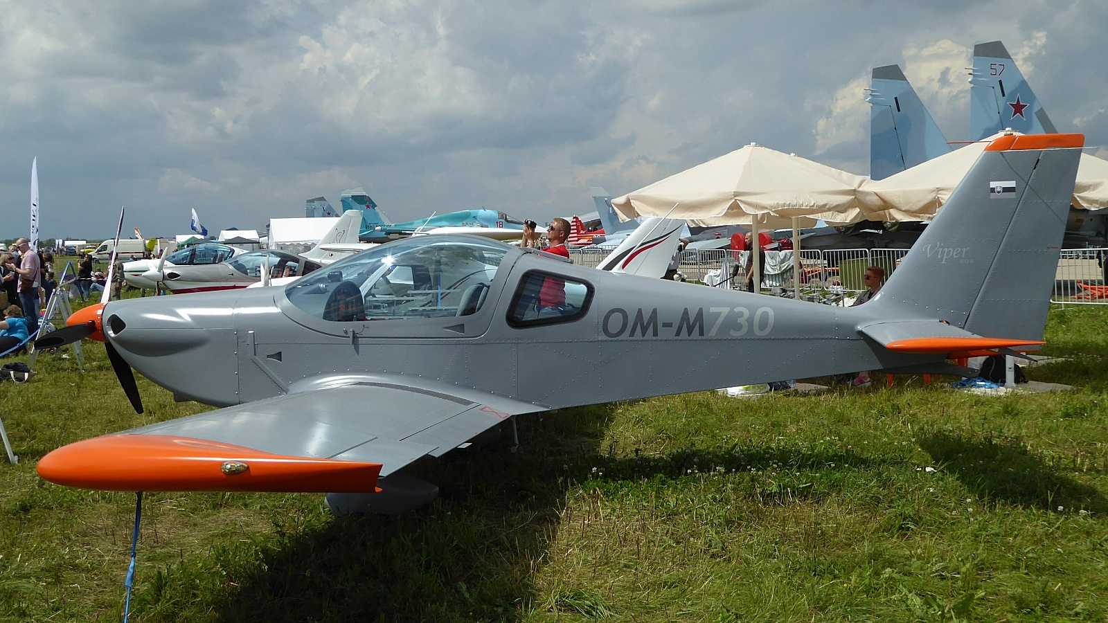 At MAKS 2017, Zhukovsky, Russia